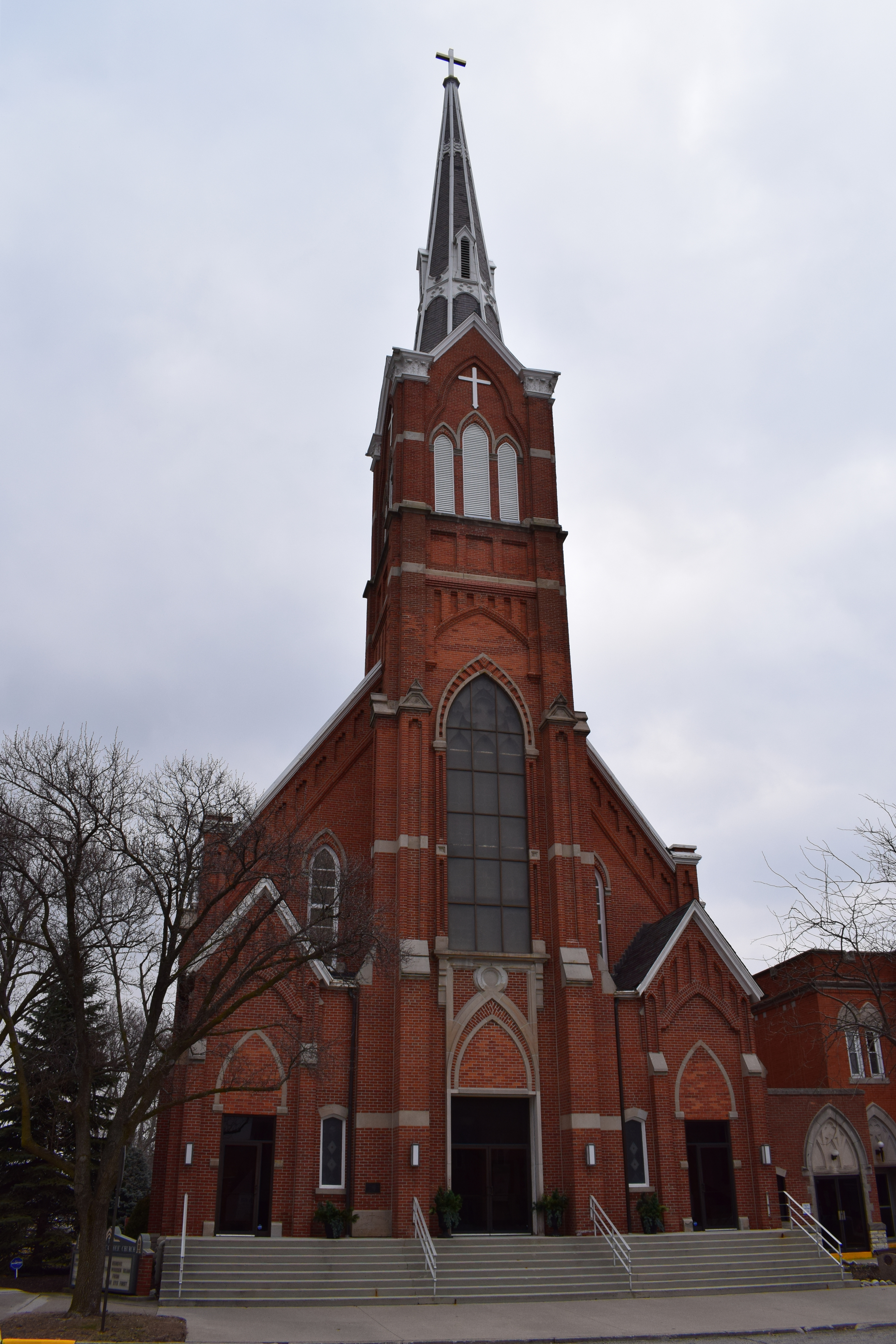 Saint Augustine Church (Napoleon, Ohio) - exterior 3